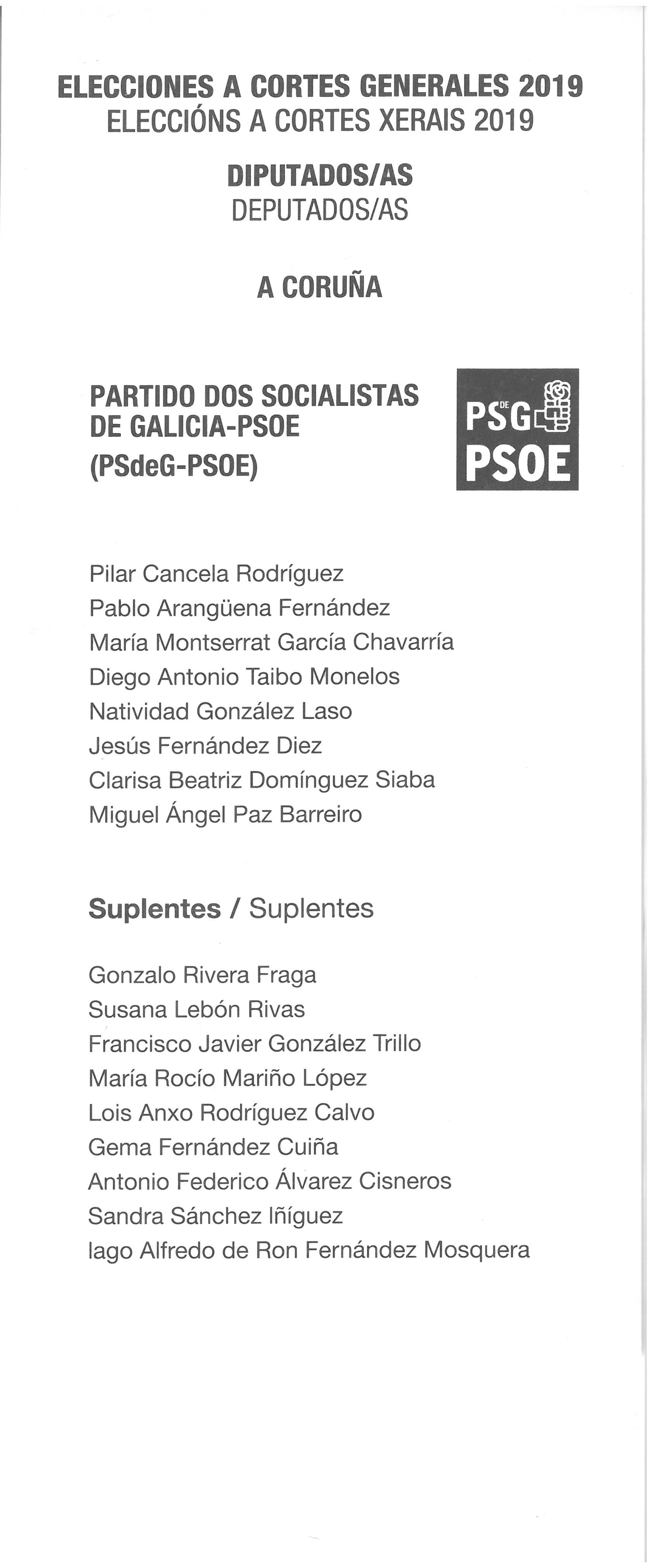 Ballot for Spanish General Elections of April 28th, 2019